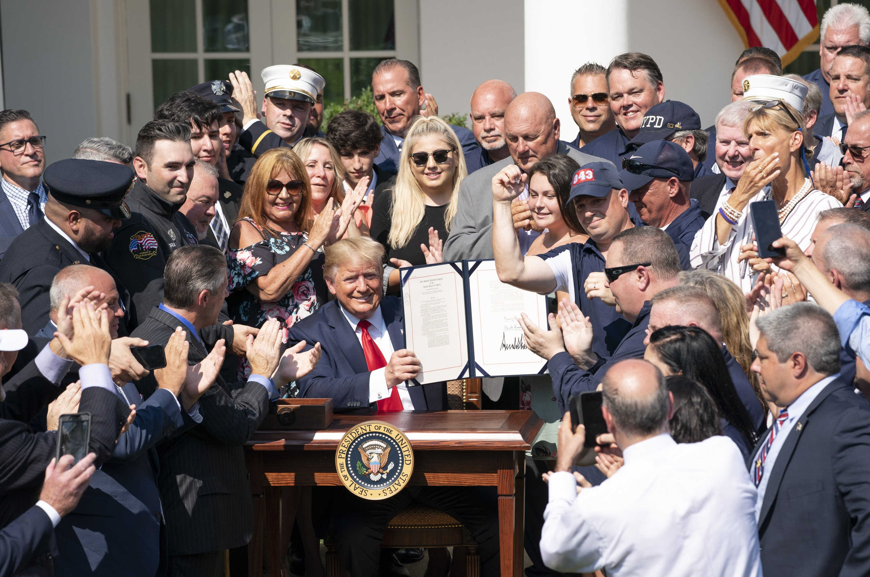 President Donald J. Trump is applauded by 9/11 first responders and 9/11 families as he displays his signature on H.R. 1327; an act to permanently authorize the September 11th Victim Compensation Fund Monday, July 29, 2019, in the Rose Garden of the White House. (Official White House Photo by Joyce N. Boghosian)